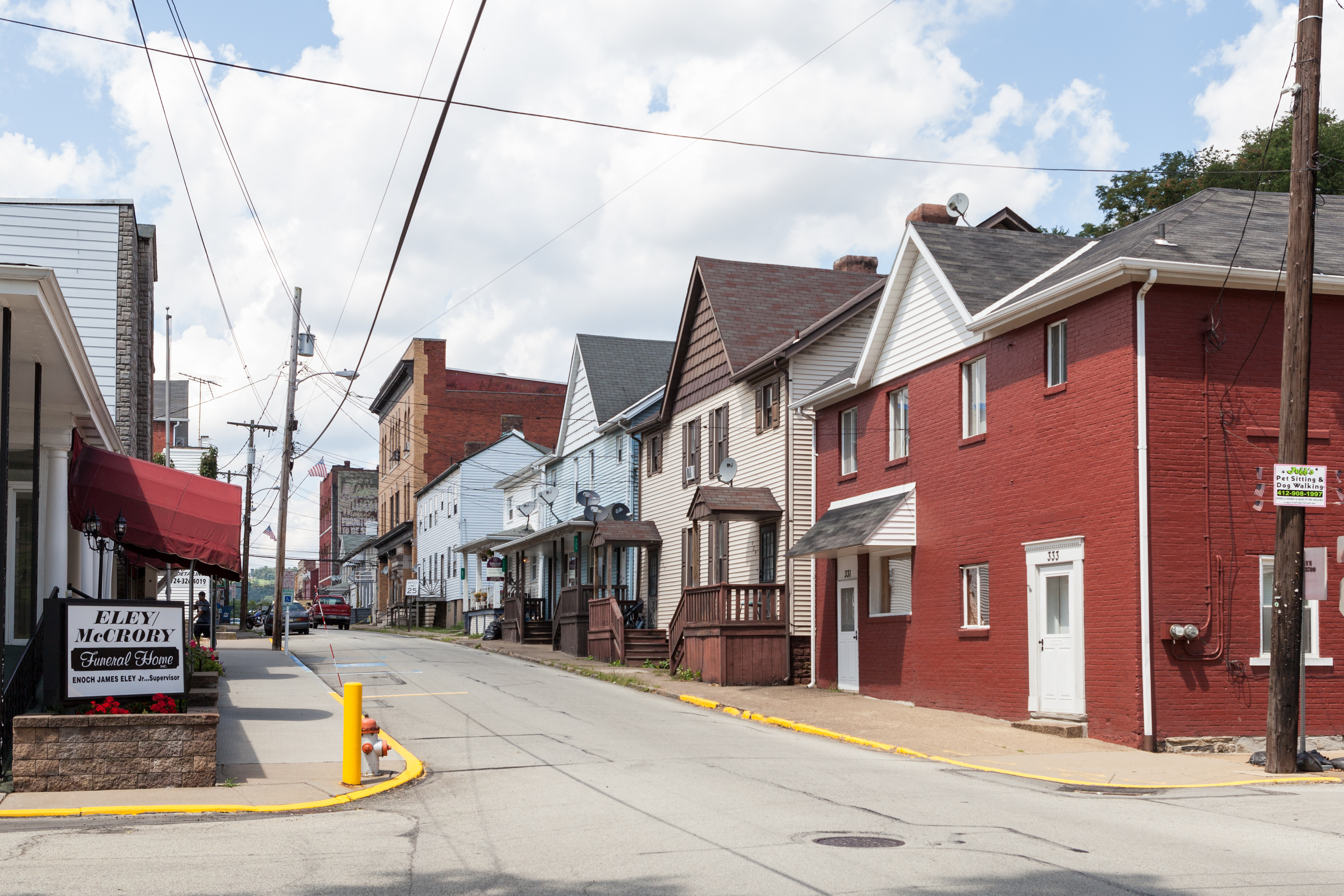 Looking north at the 300 block of Main Street, Fayette City, Pennsylvania.